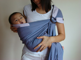 Reclining Cradle Hold using Baby Ring Sling